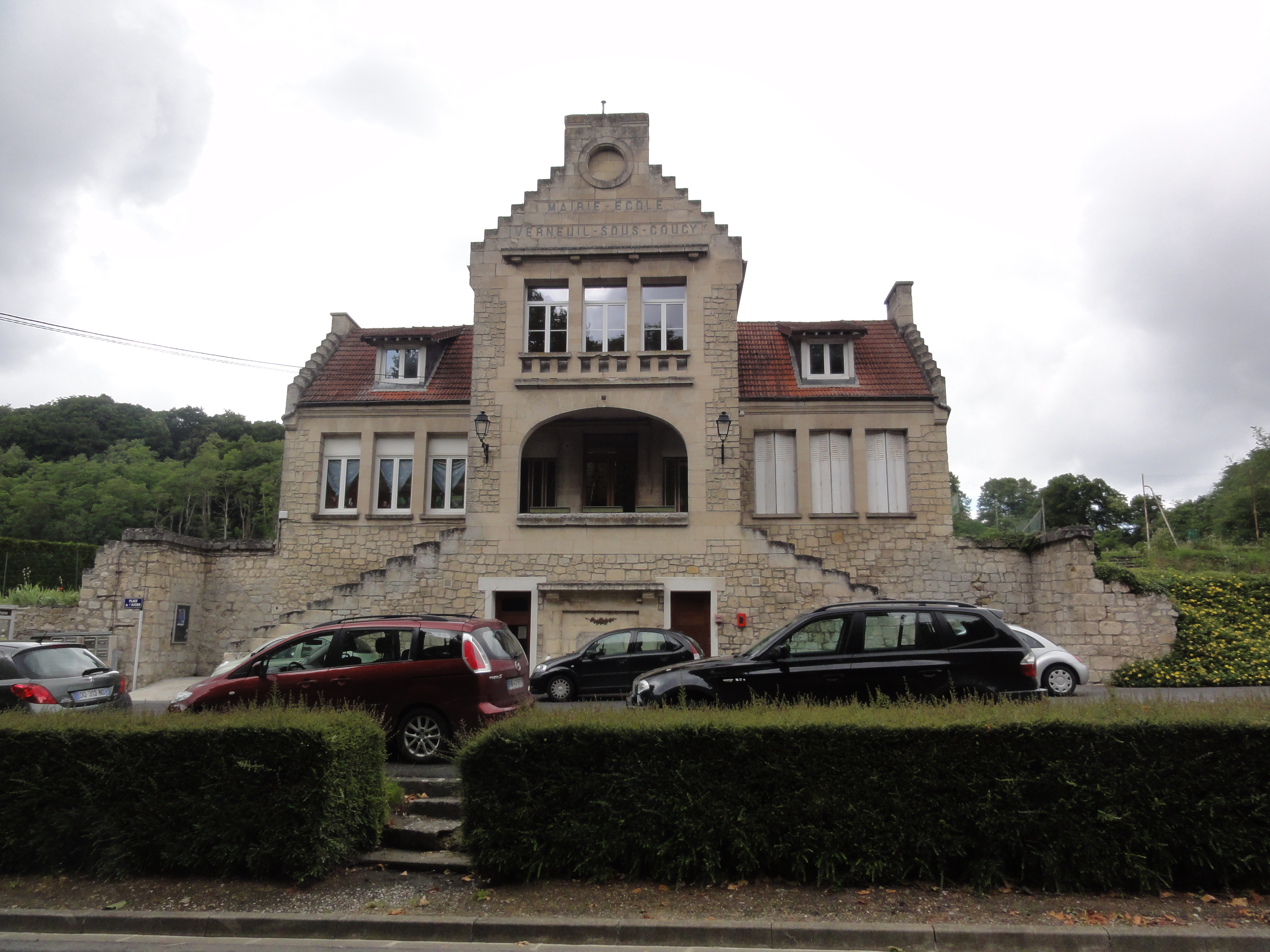 Verneuil-sous-Coucy (Aisne) mairie